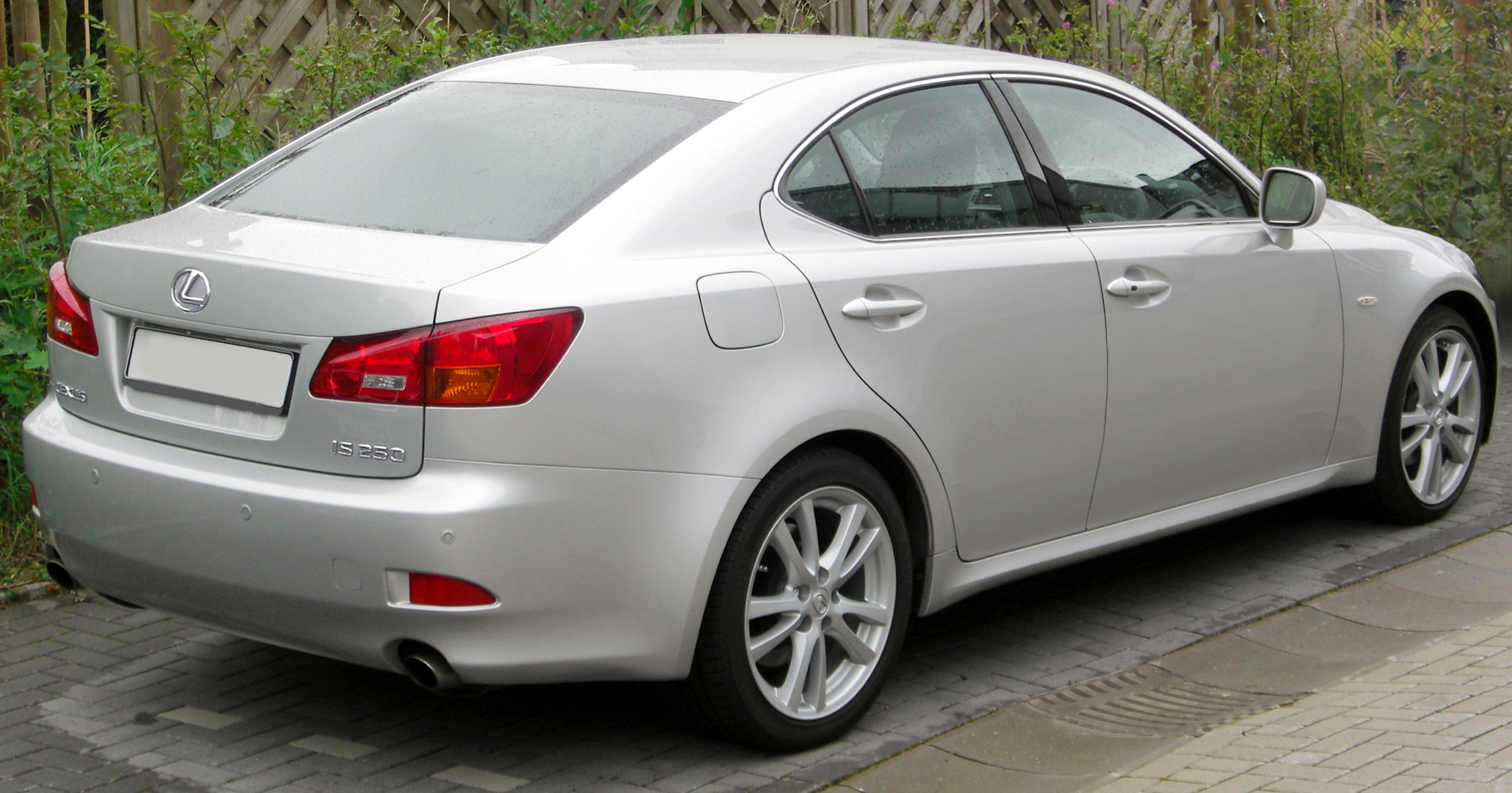 Lexus IS250 AWD